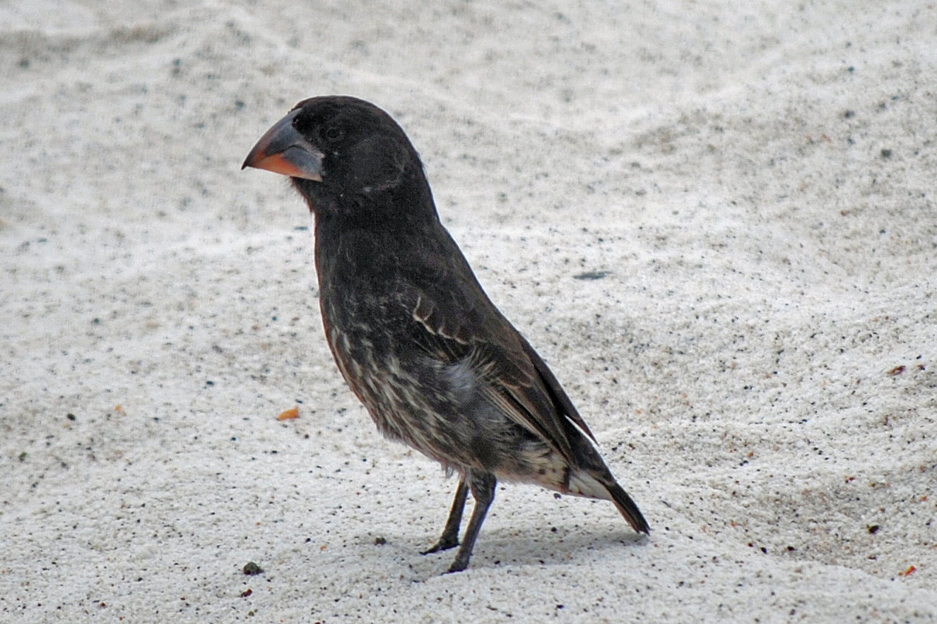 Large Cactus Finch, Geospiza conirostris ssp conirostris, standing on sandy ground on Espanola, Galapagos, Ecuador.